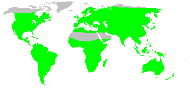 Oxyopidae habitat distribution, drawn after Platnick: World Spider Catalog 7.0. This is not a precise rendering of the distribution! If you have better information, please replace this map, or send me the info, and i will redraw it.